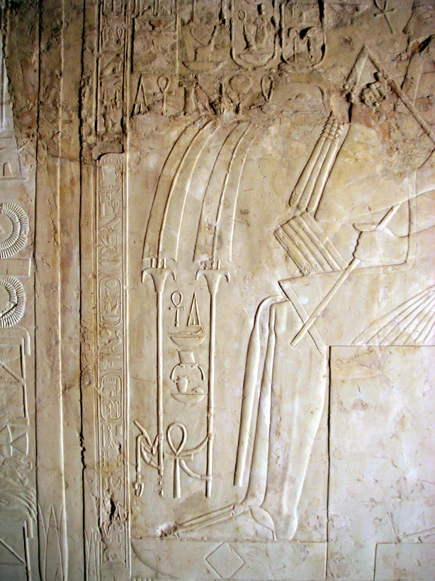 Relief of the tomb of Kheruef - 18th dynasty of Egypt